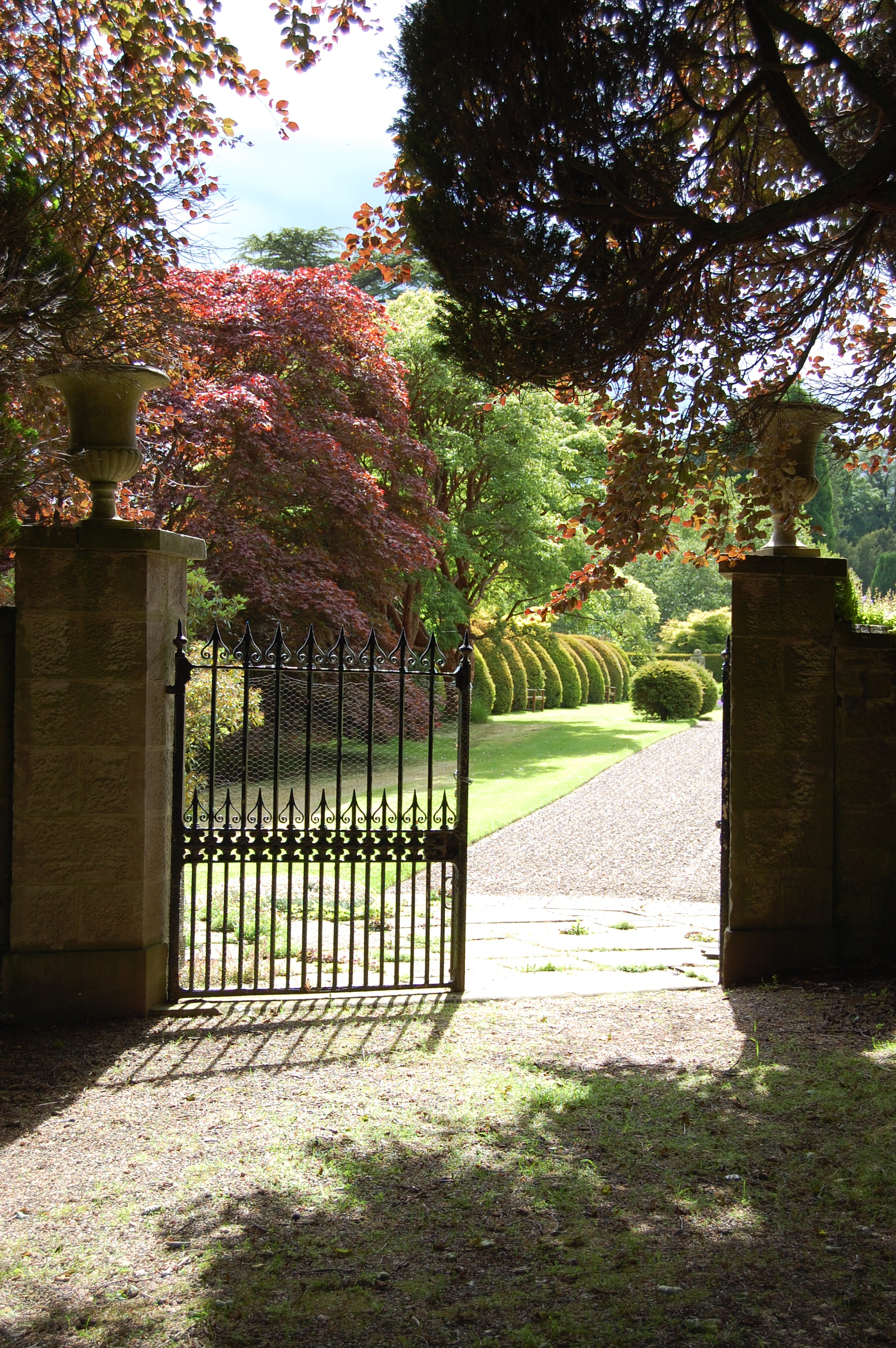 The entrance to the gardens of Brechin Castle